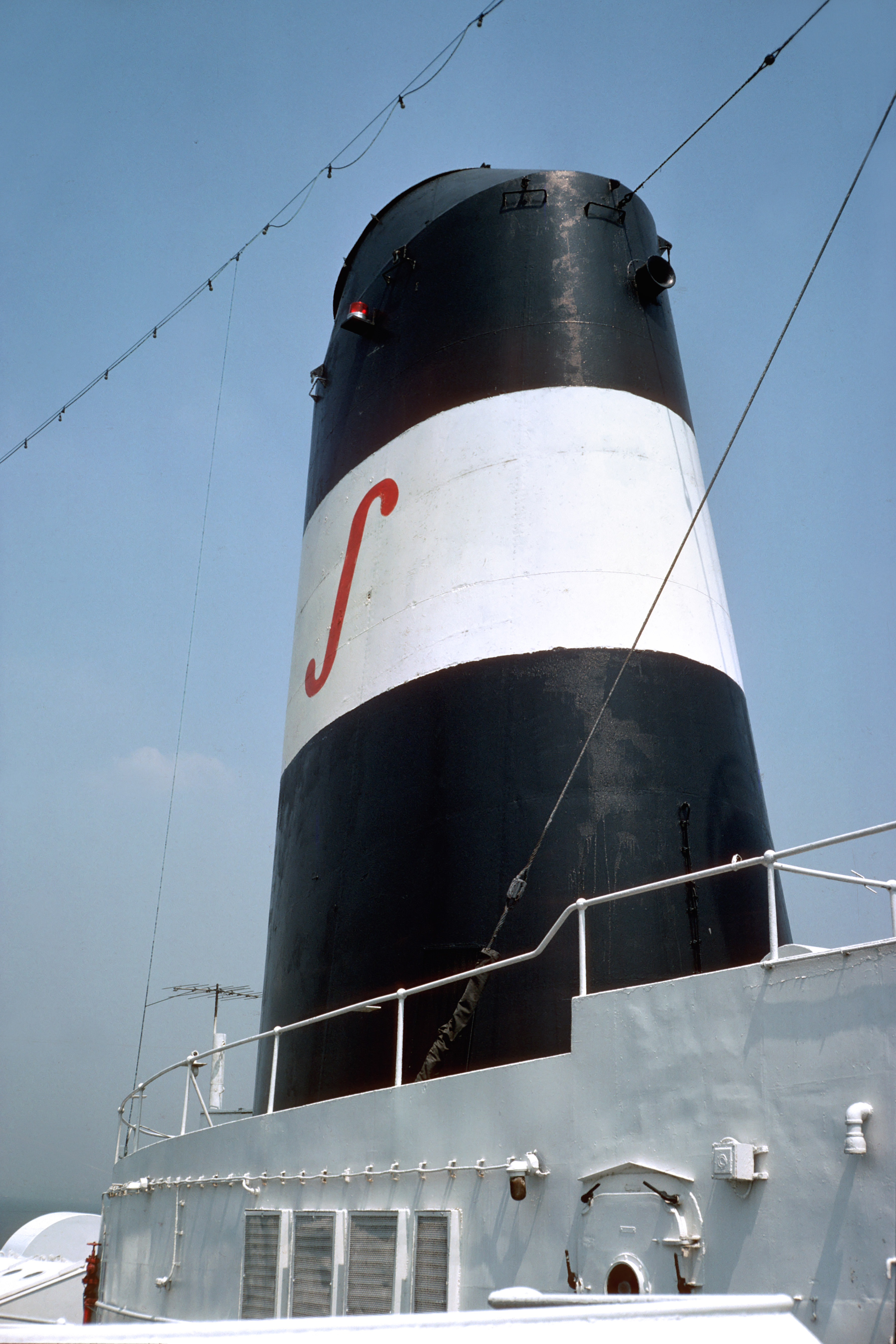 SS Stevens stack as viewed from the bridge deck, starboard side. SS Stevens was formerly cruise liner SS Exochorda of the New "4 Aces" fleet of American Export Lines The image was scanned from the original Kodachrome 25 (Daylight) 35mm film image. For other photos, see SS Stevens Gallery